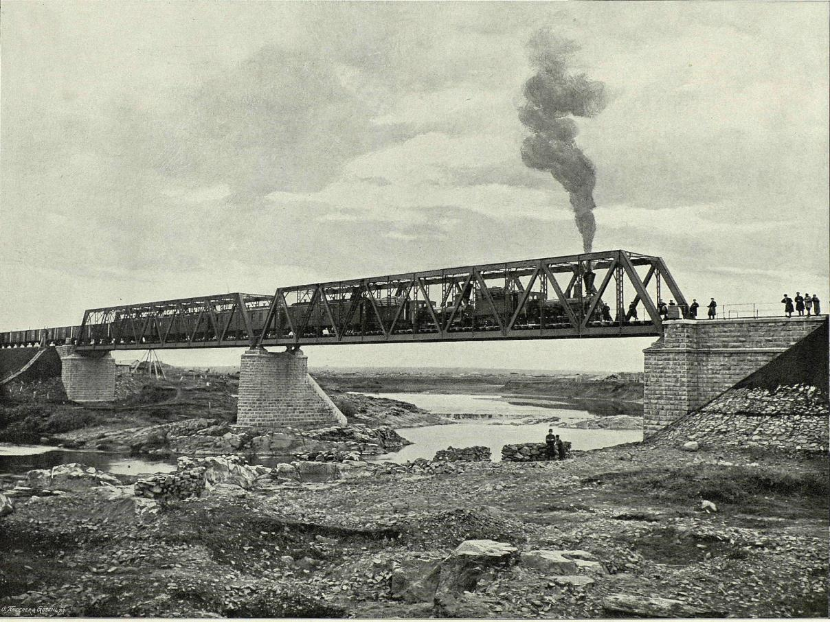 «Great Path - Views of Siberia and Great Siberian Railway» book, 1899